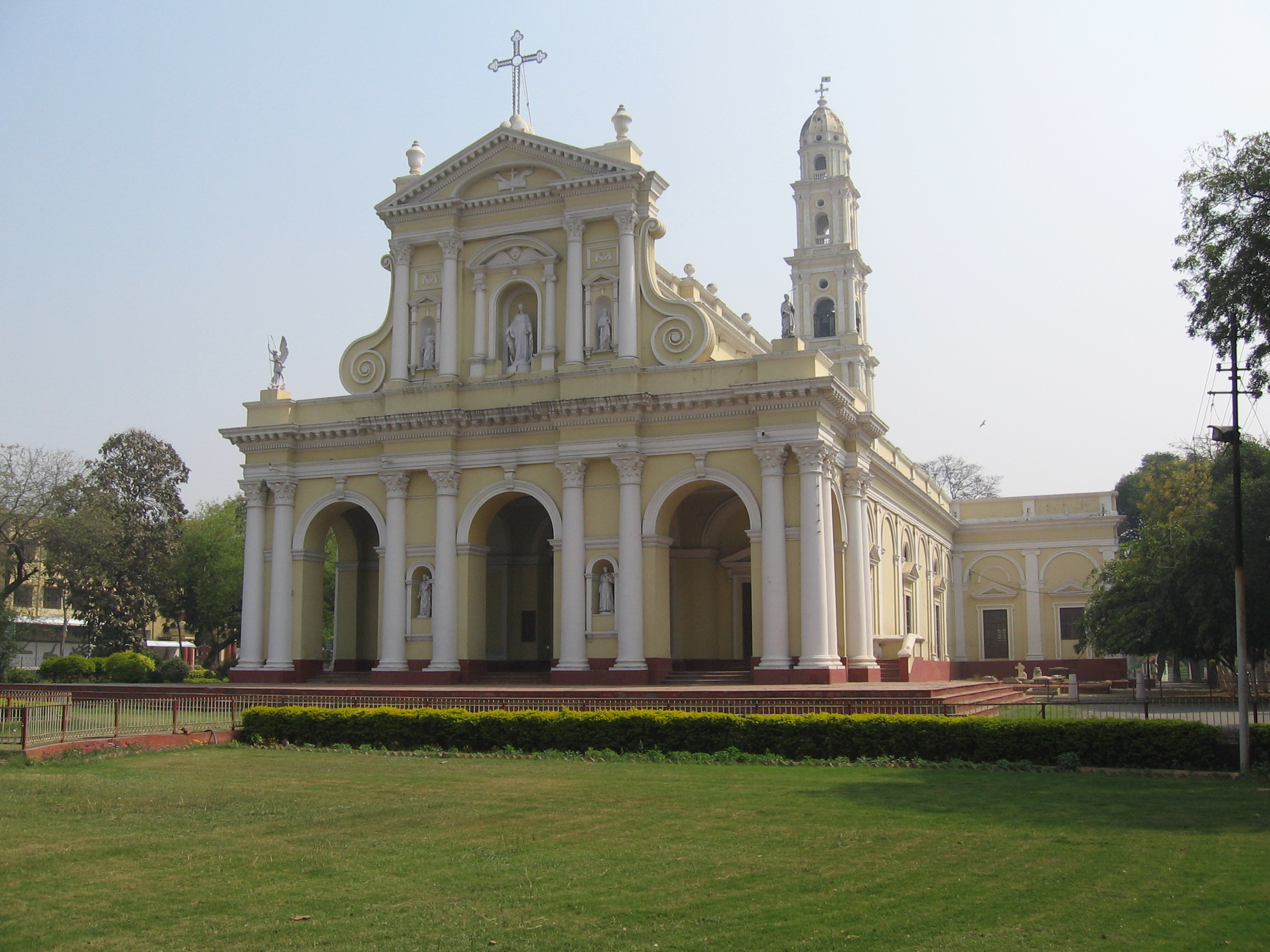 Roman Catholic Cathedral of Agra (Uttar Pradesh, India) built in the XIXth century.